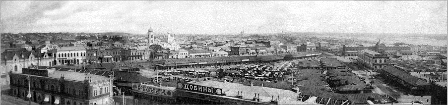 Market square (Bazarnaja Ploshad) in Tsaritsyn (Volgograd) city before 1917